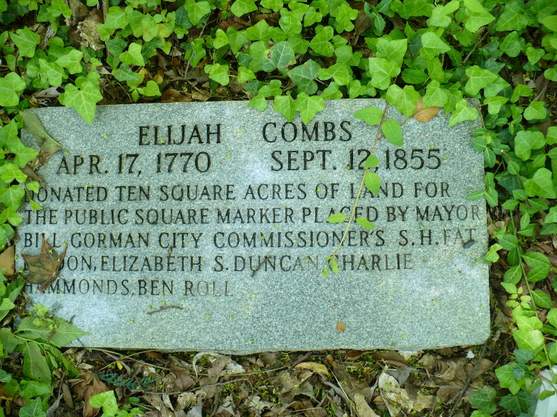 Marker for Elijah Combs (not actual grave marker or location)